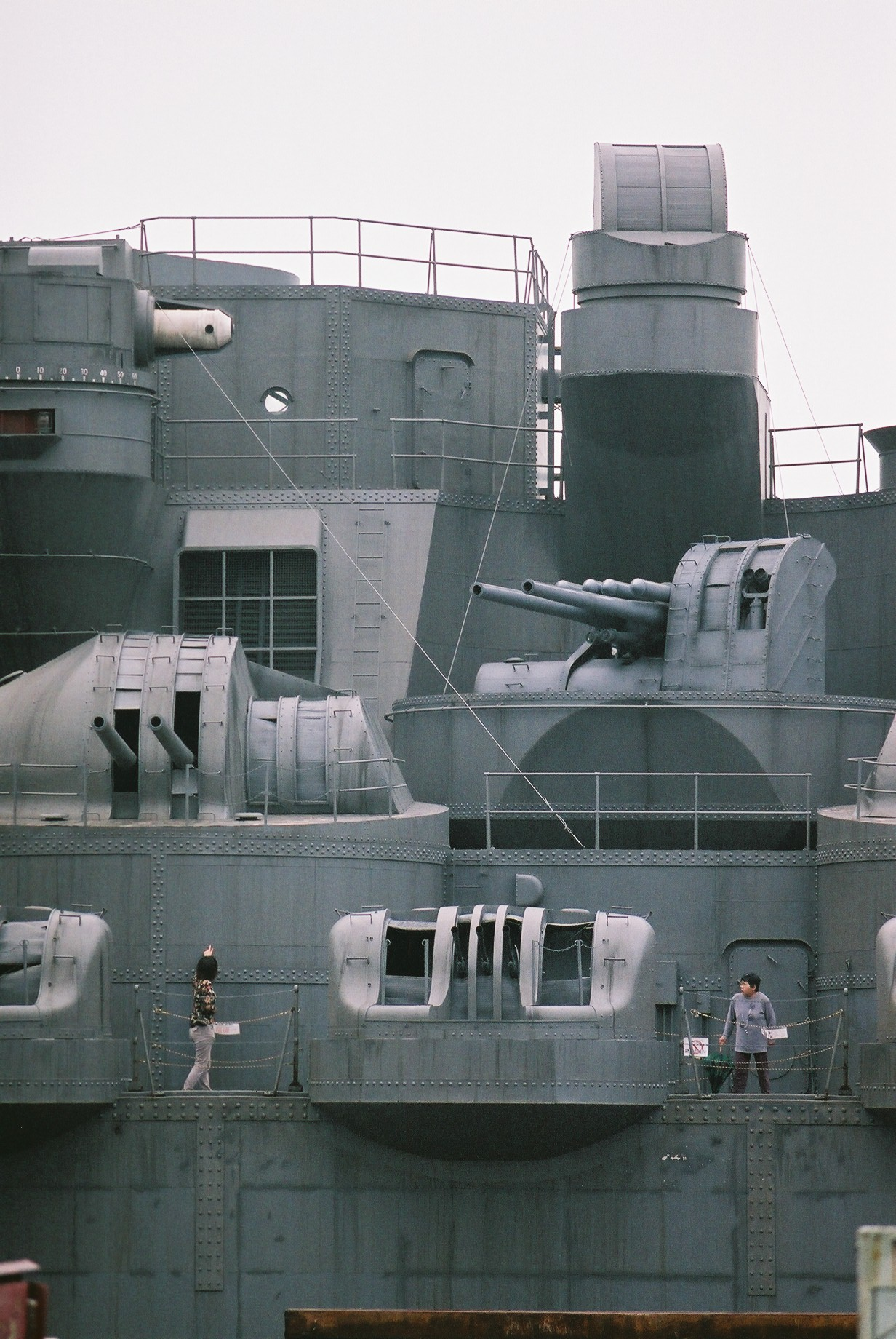 Copy of battleship Yamato used in the film "Otoko-tachi no Yamato" 2005 japan